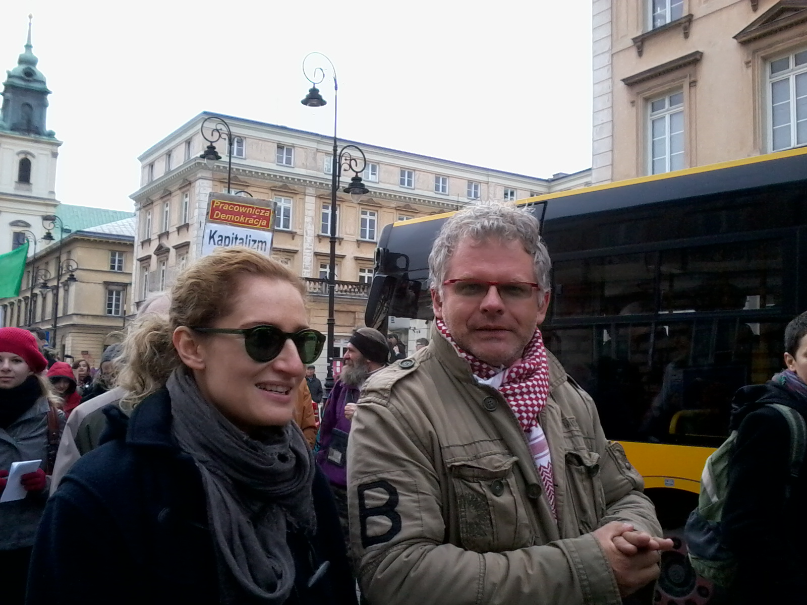 Polish journalist Artur Domosławski.